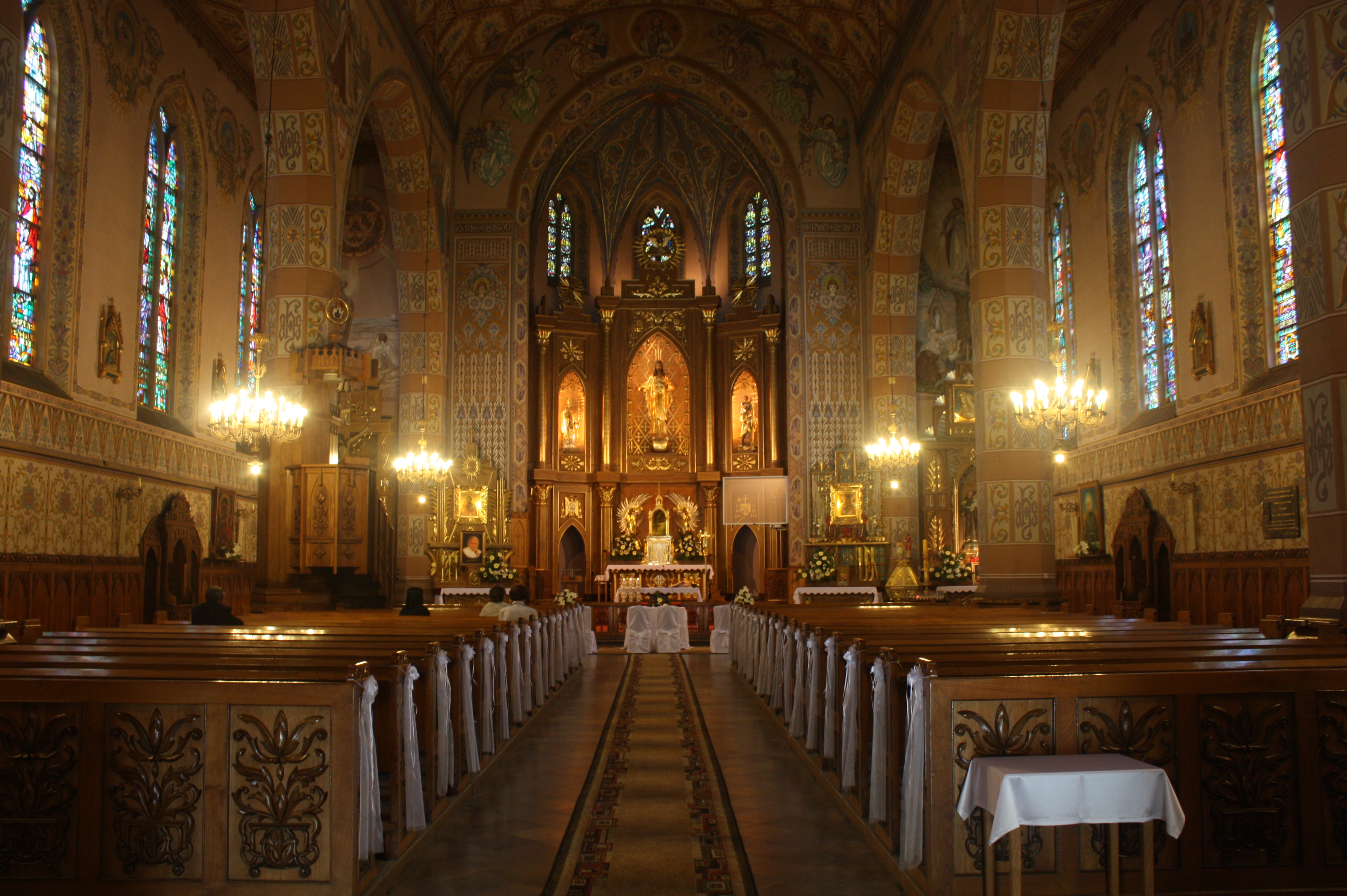 This photo of Warmian-Masurian Voivodeship was taken during Wikiexpedition 2012 set up by Wikimedia Polska Association. You can see all photographs in category Wikiekspedycja 2012. The making of this document was supported by Wikimedia Polska.